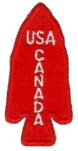 Shoulder sleeve patch of the 1st Special Service Force.